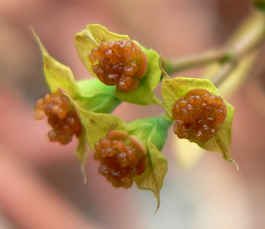 Photo of Euphorbia genoudiana at the University of California Botanical Garden